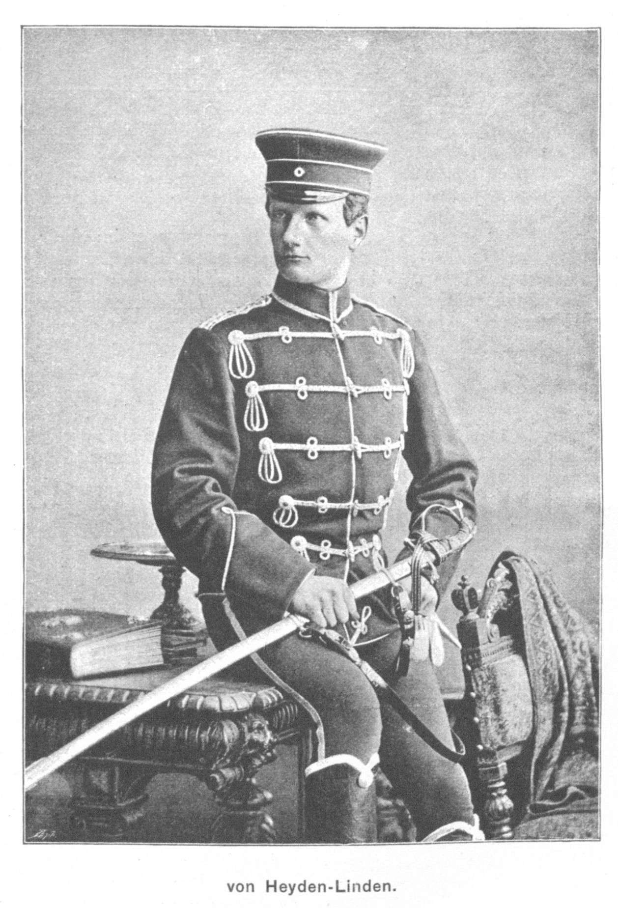 Portrait of Bogislav von Heyden-Linden (1853-1909), Austrian officer and jockey.